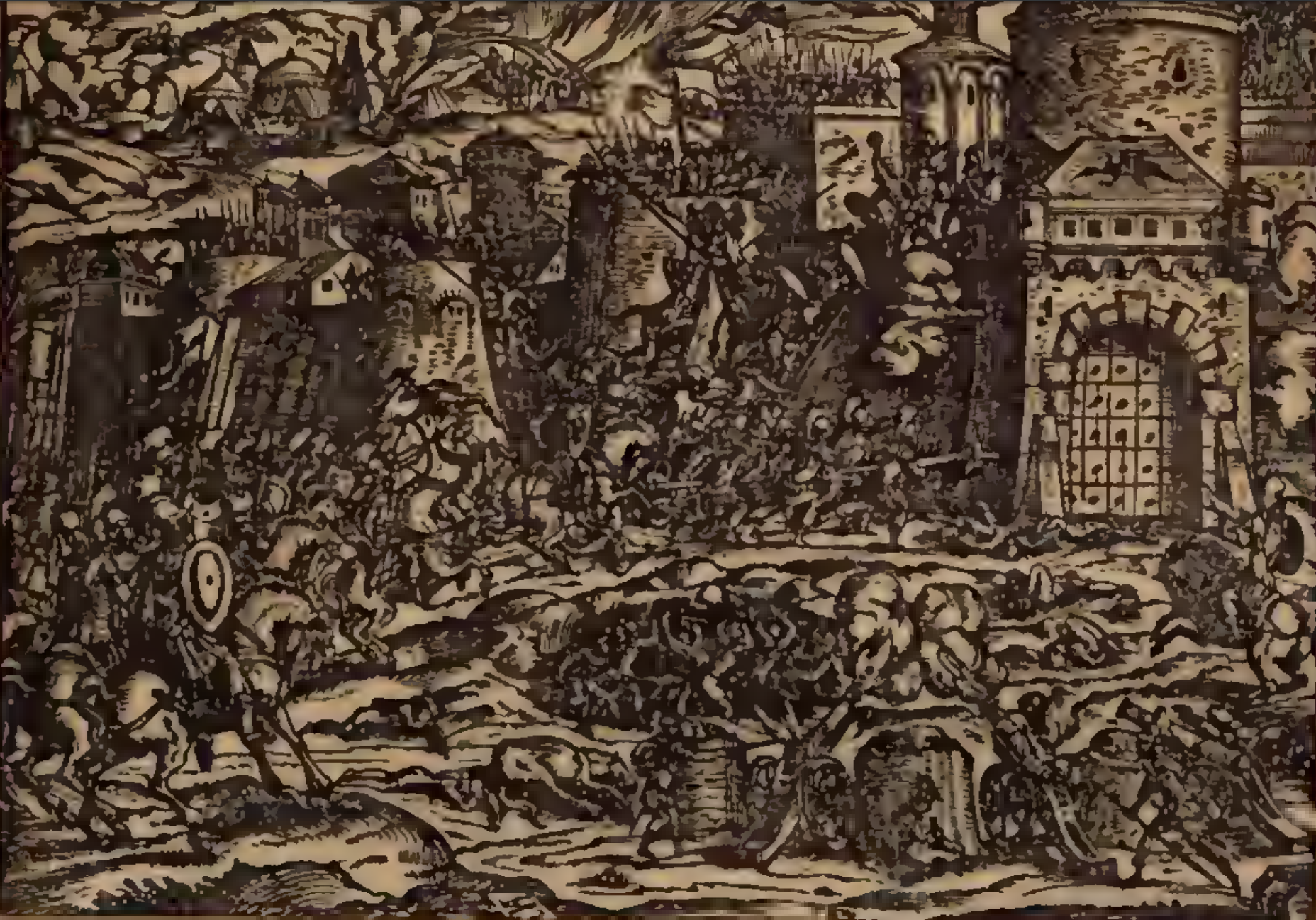 Woodcut depicting second siege of Krujë in 1466